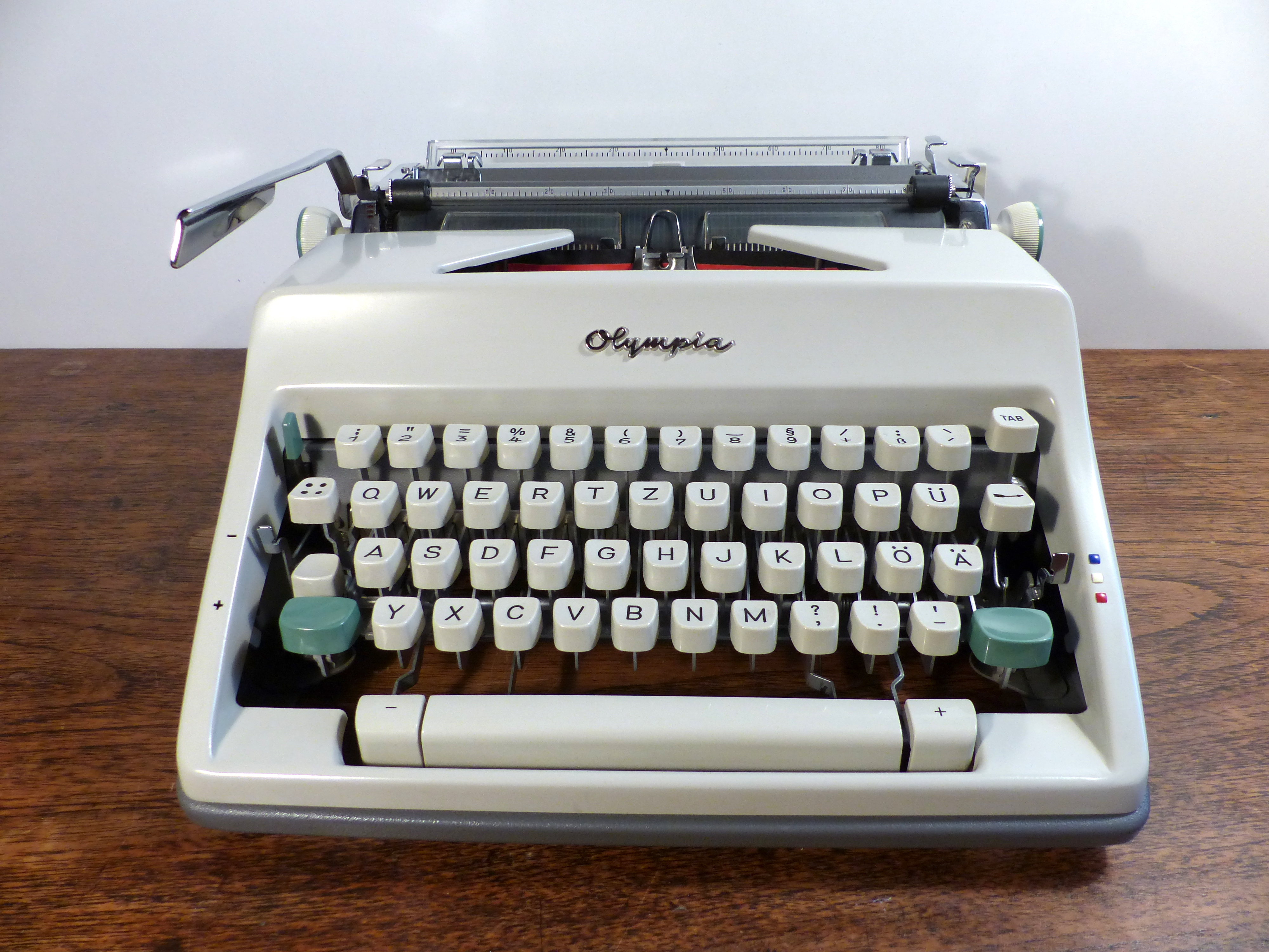 Olympia SM9 typewriter from 1967 with the serial number 3361487.